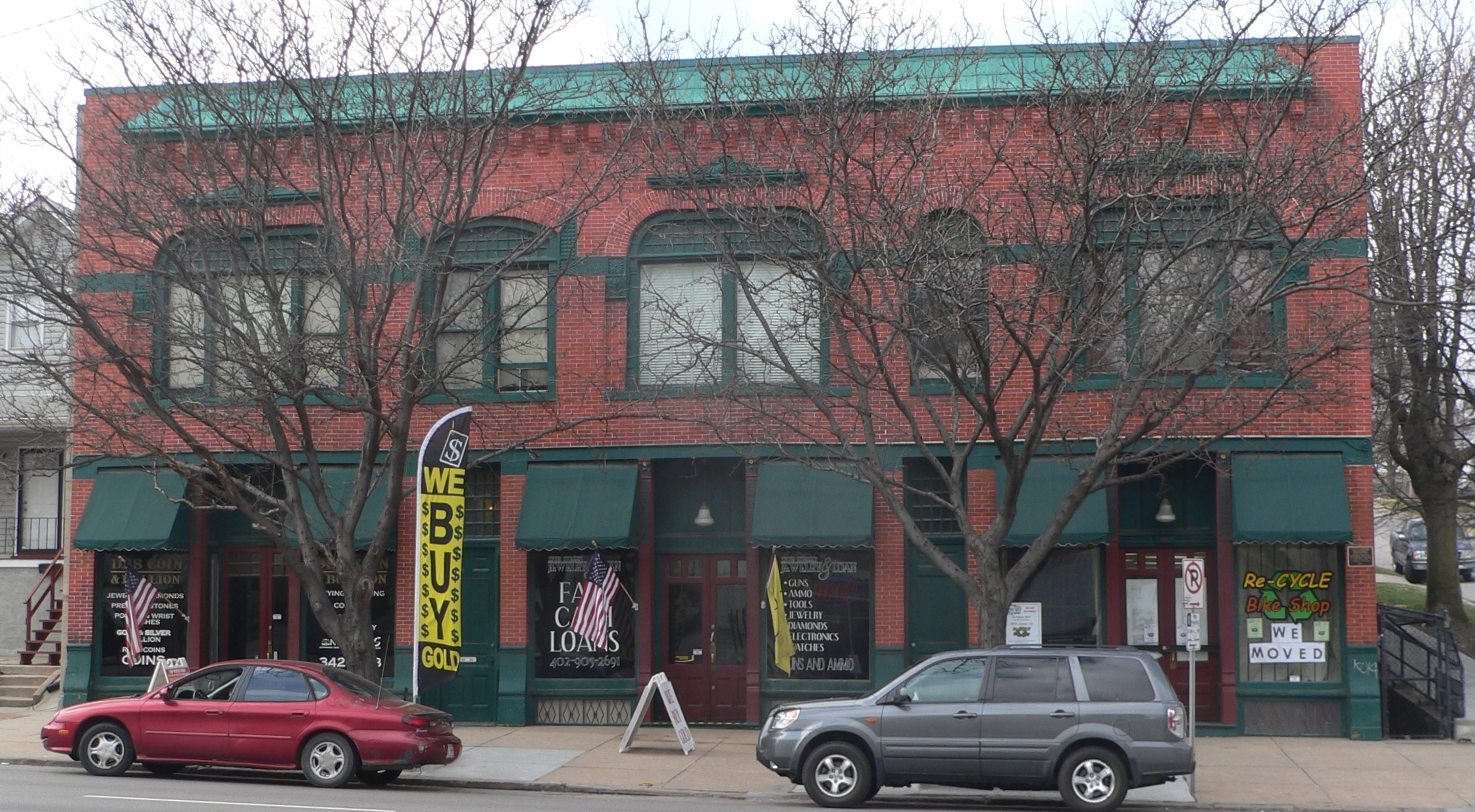 Gallagher Building, located at 1902-1906 S. 13th Street in Omaha, Nebraska; seen from the east, across 13th.